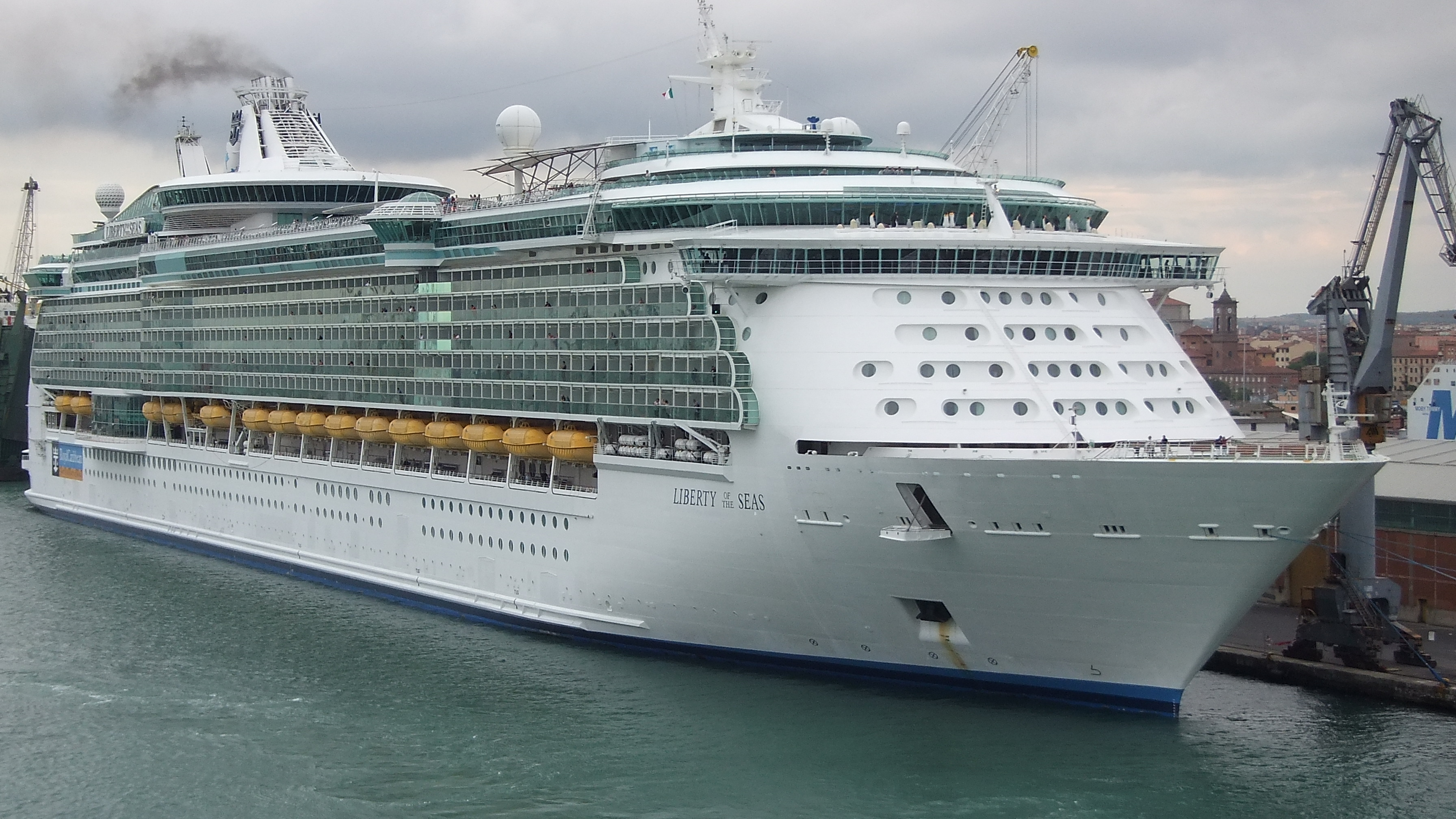 The Liberty of the Seas